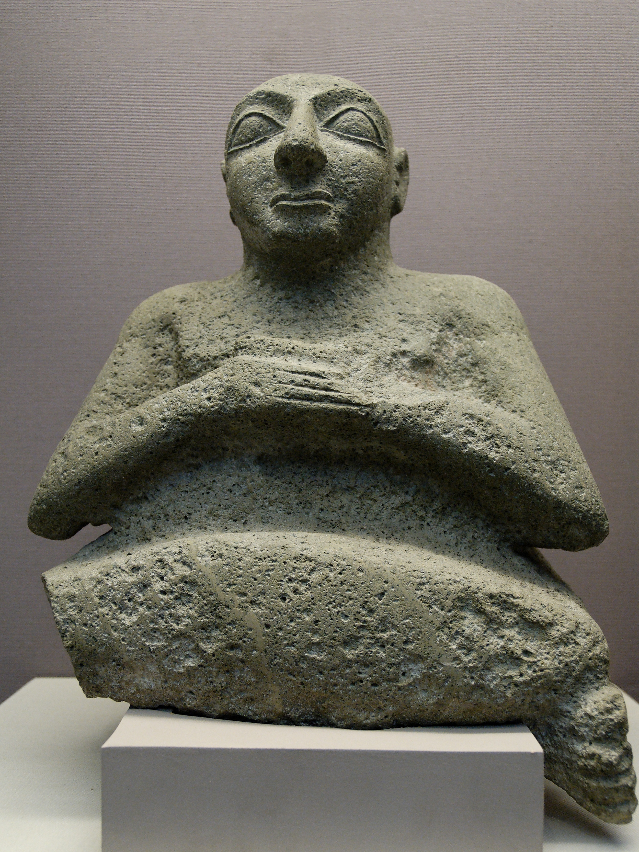 Statue of Kurlil, Early Dynastic period. Found next to the Temple of Ninhursag in Tell al-'Ubaid, southern Iraq.